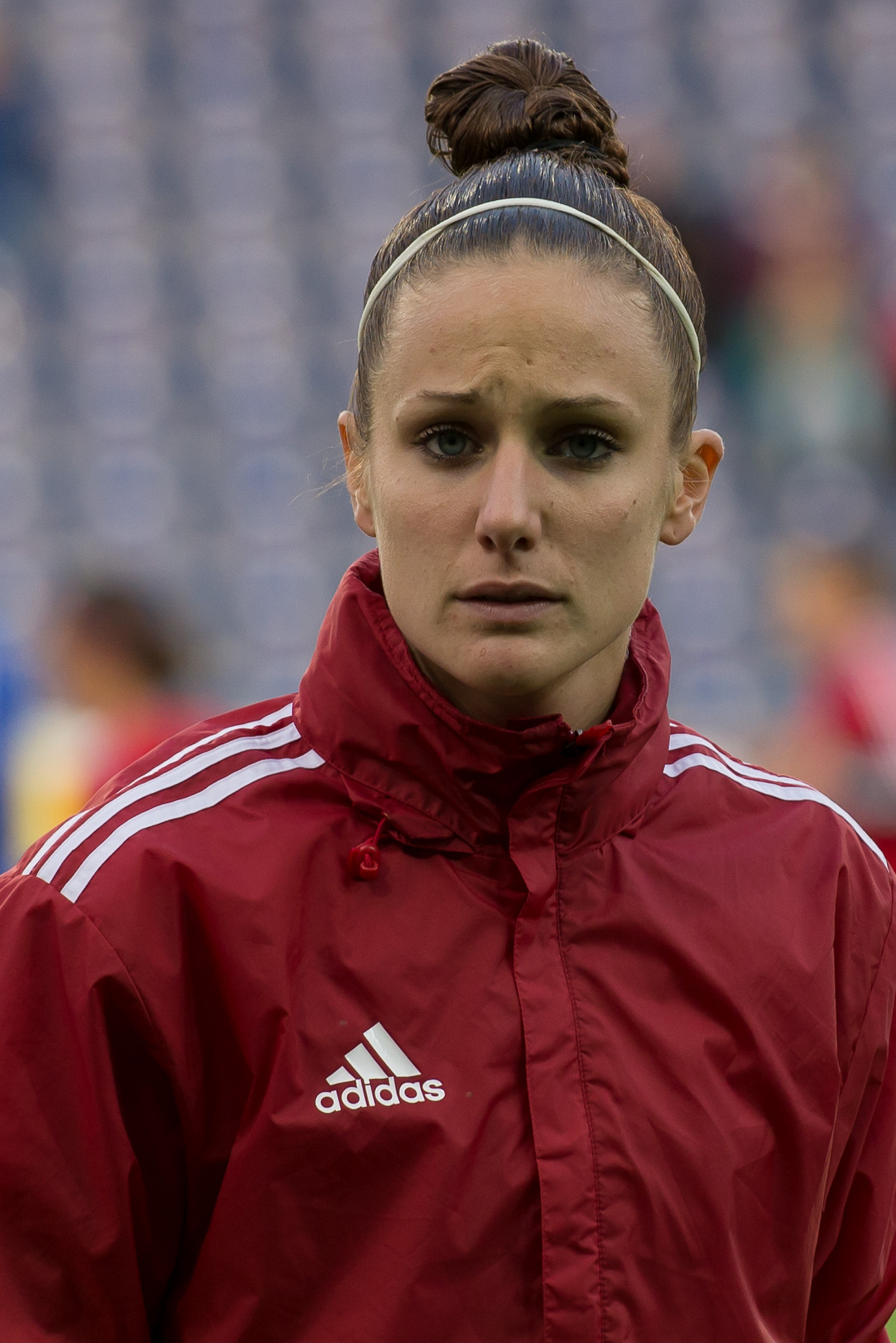 FIFA Women's World Cup 2015: Qualifying Round St. Pölten, 13.09.2014 Alexandra Szarvas